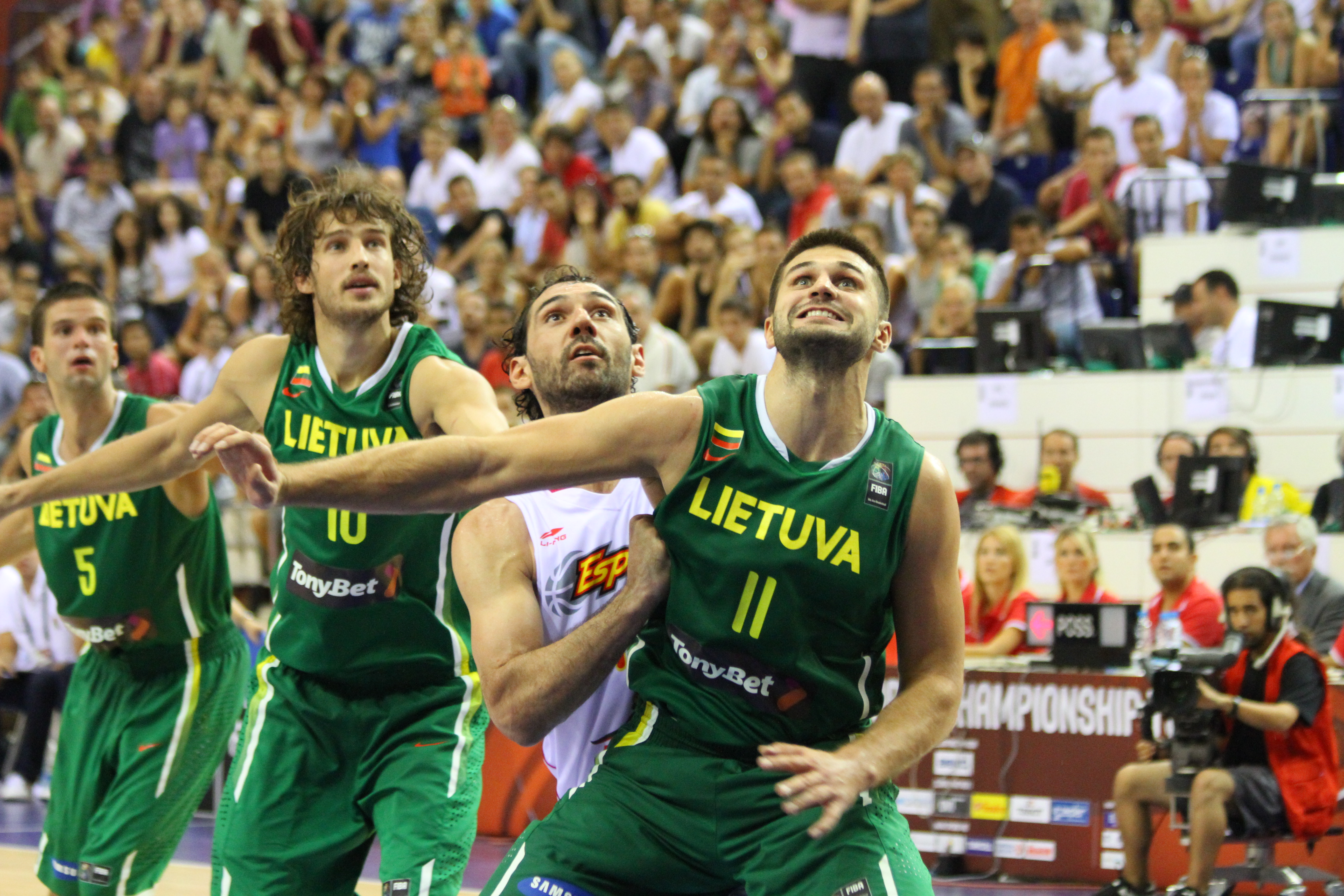 Game between Lithuania national basketball team and Spain national team.